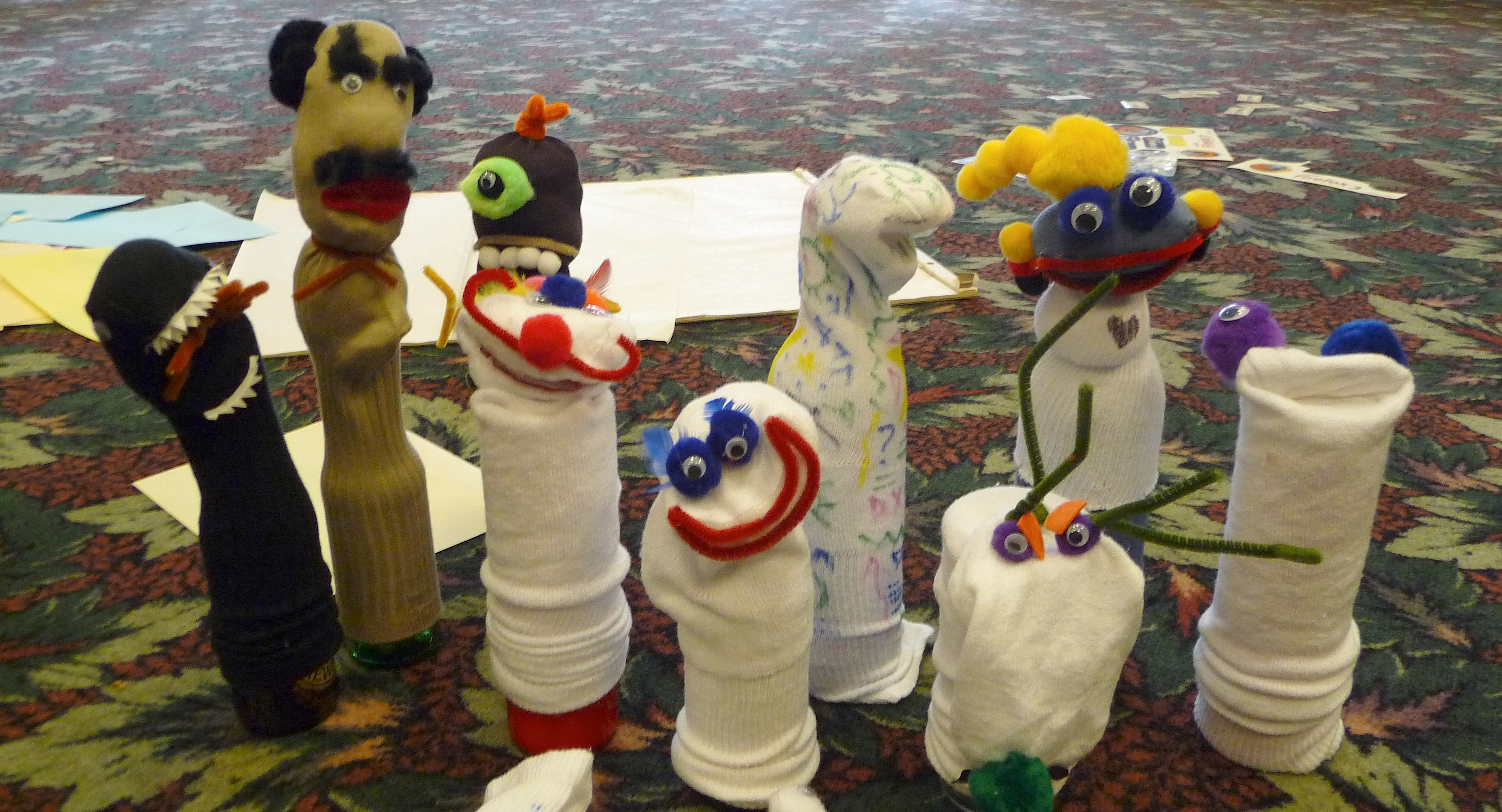 Photo of sock puppets created at 2009 RecentChangesCamp in Portland, Oregon